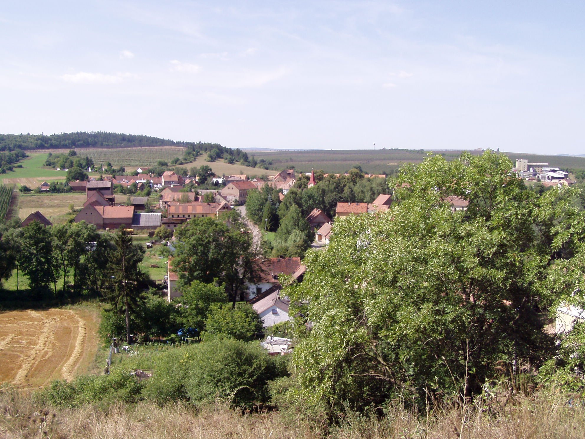 Besno - view